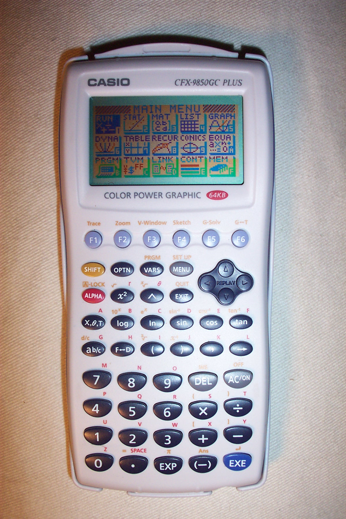 A Casio CFX-9850GB_PLUSCasio CFX-9850GC-PLUS, which is a CFX-9850GB with 64kB of memory. This calculator is showing the menu interface on its LCD unit.